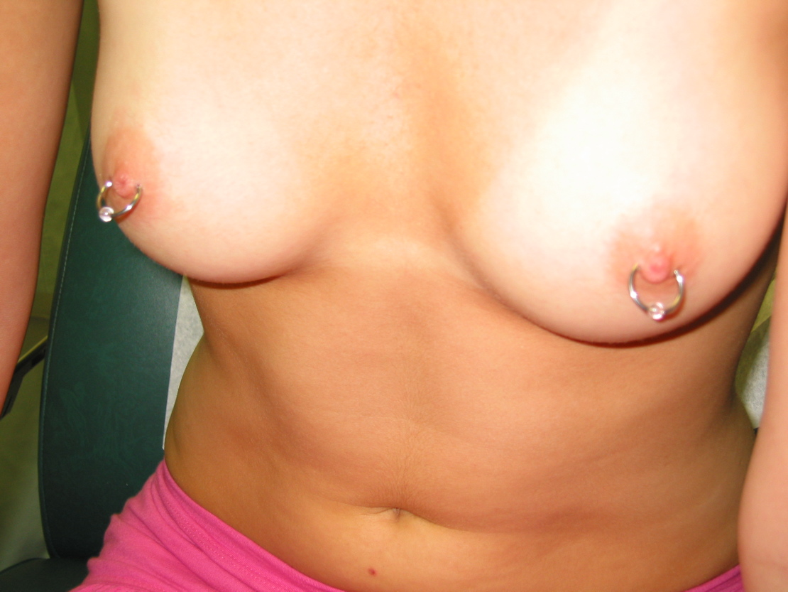 Standard nipple piercings. East Bay CA